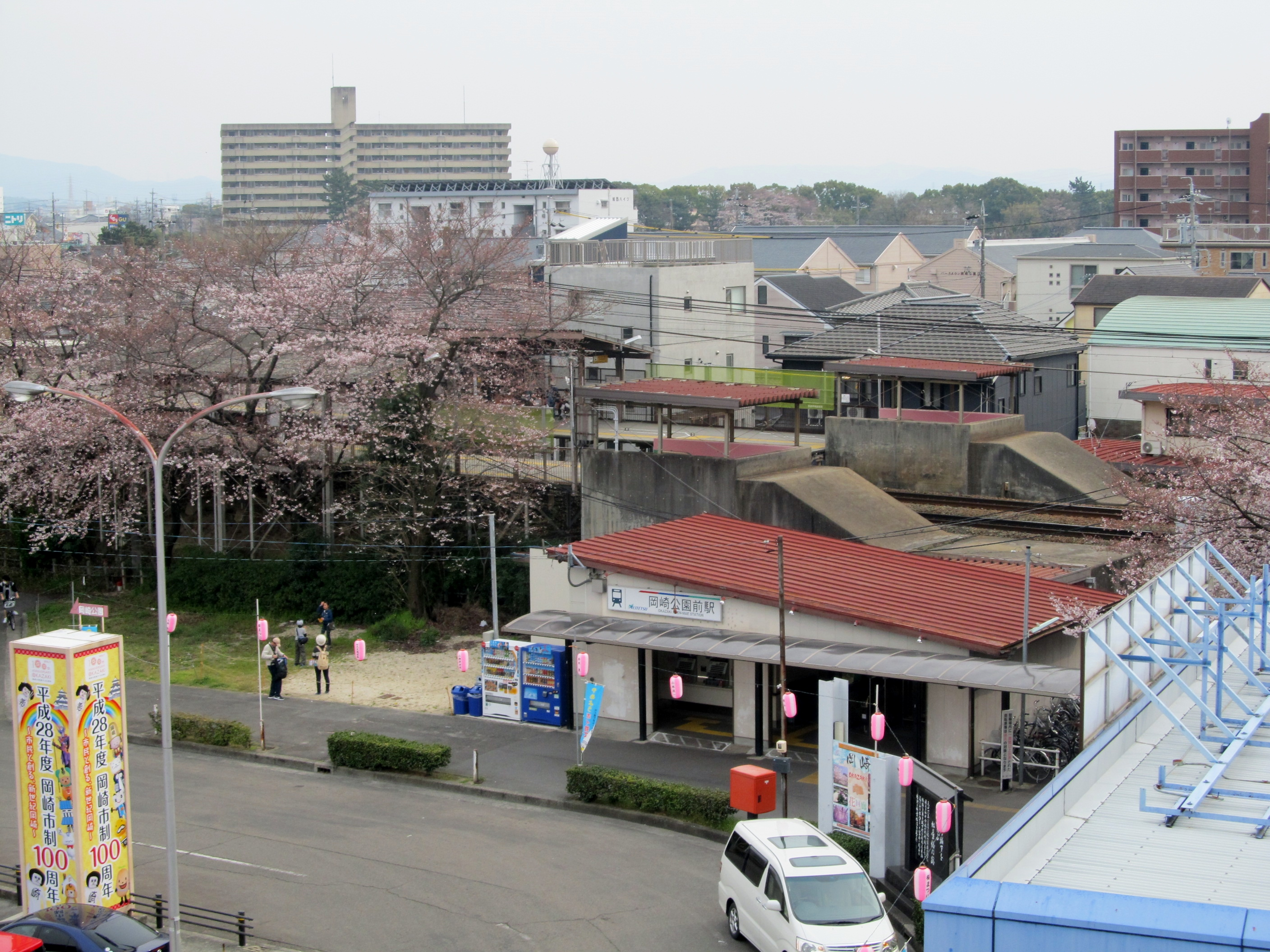 Nagoya Railroad Nagoya Main Line Okazakikōen-mae Station